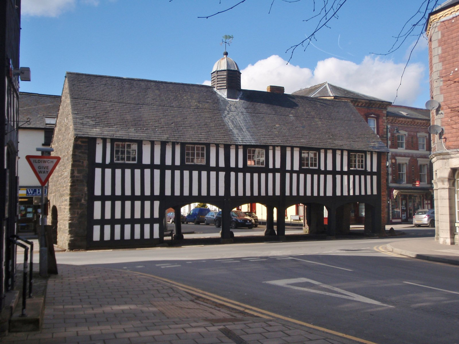 The half-timbered Old Market Hall stands at the crossroads of the four streets of the original medieval town. Built around 1600, it is the only surviving building of this type in Wales. Assize courts were held in the hall around 1605, and John Wesley preached from a pulpit stone on the open ground floor in 1748.